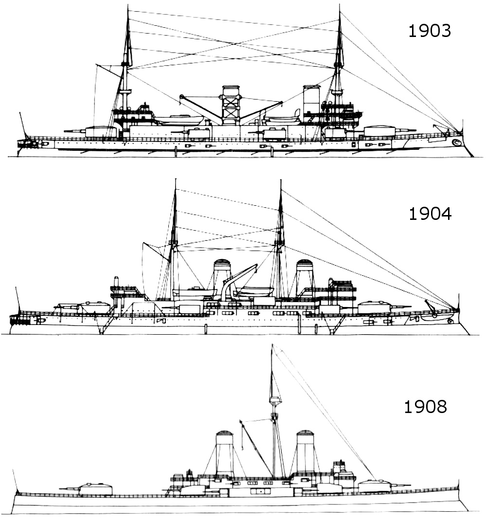 Evolution of Andrey Pervozvanny class battleship design. These are three of at least 17 distinct iteration of the design.